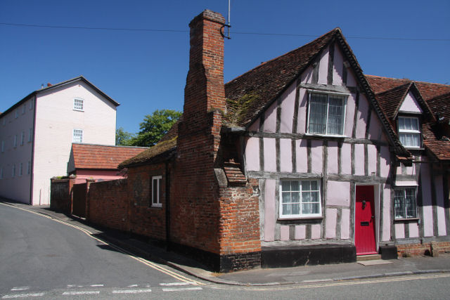 Old house, Lavenham This house is situated on the corner of Barn Street and Water Street.